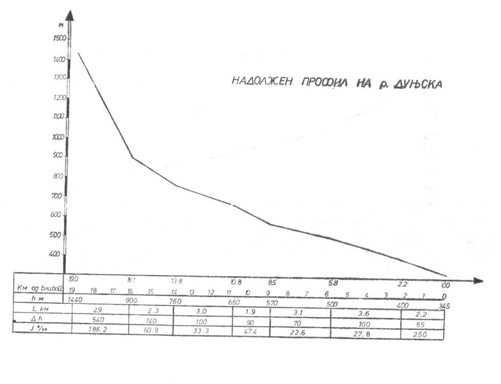 Hydrographic profile of the Dunje River in Mariovo, Macedonia